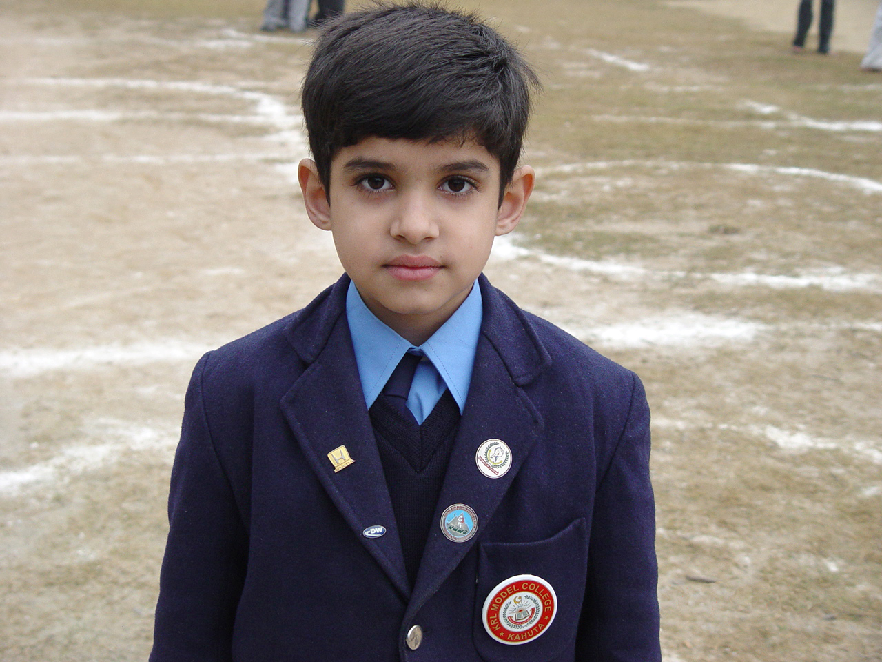 A young Pakistani student in his school uniform.